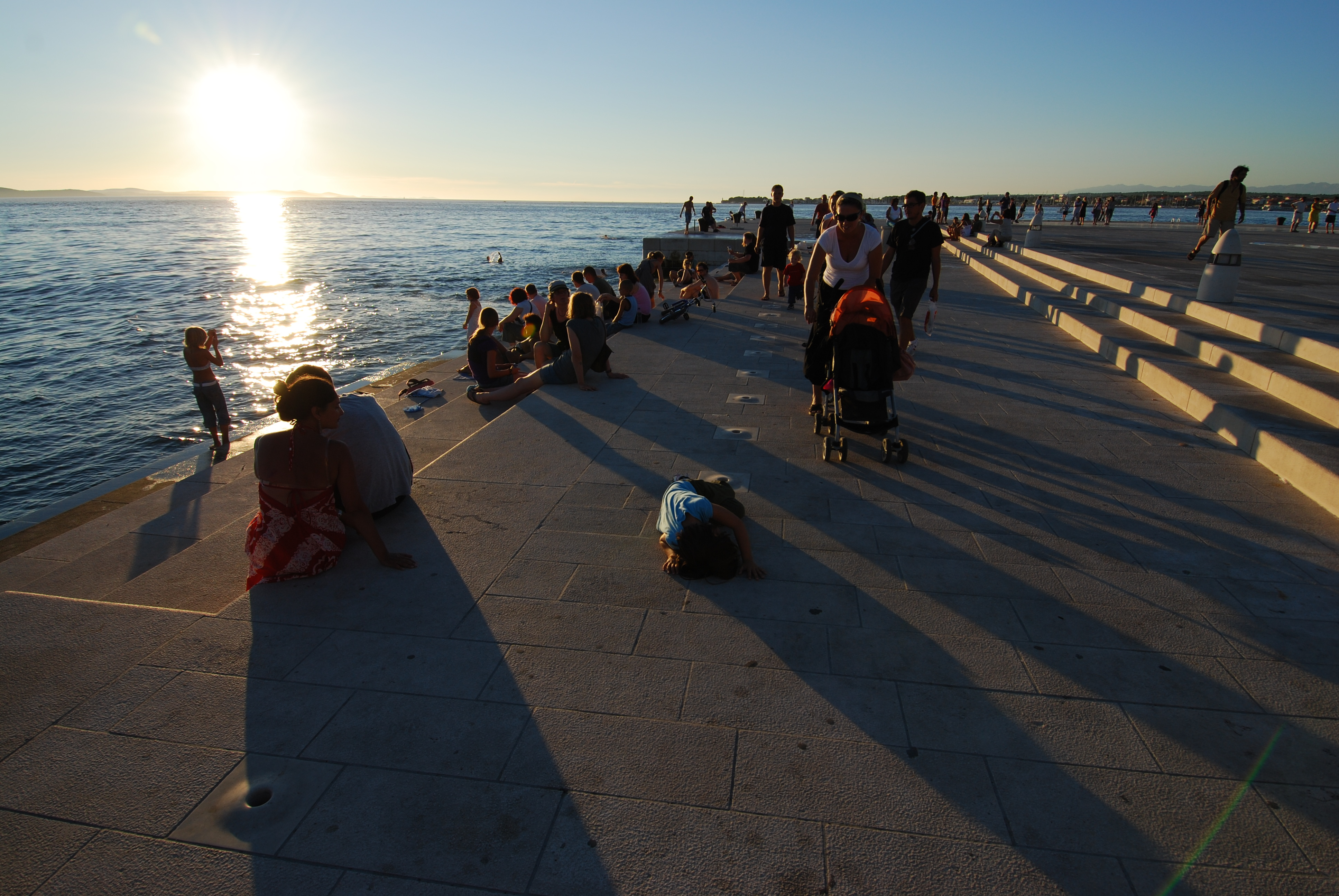 Sunset view next to the Sea organ of Zadar